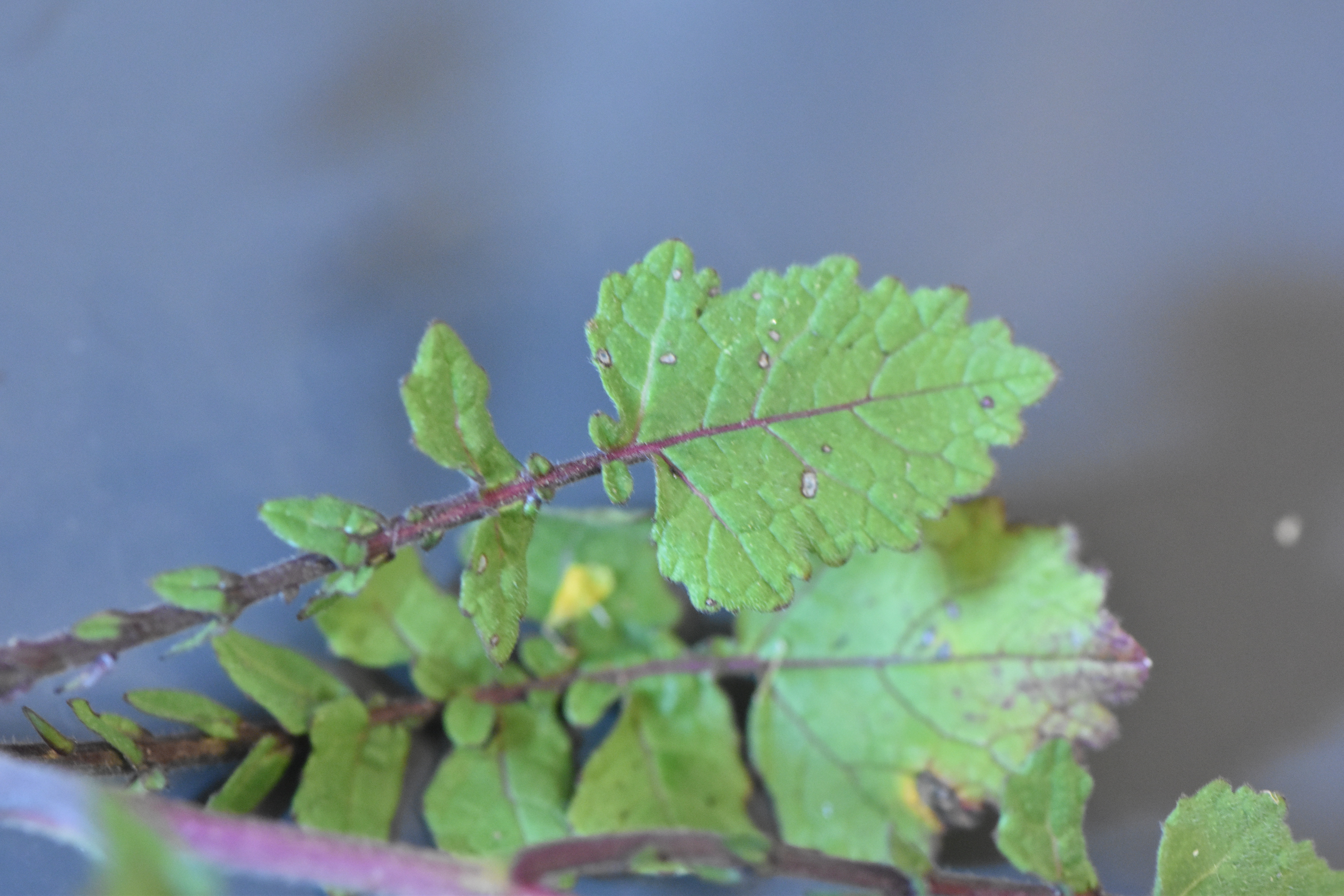 Image of Hirschfeldia incana, leaf